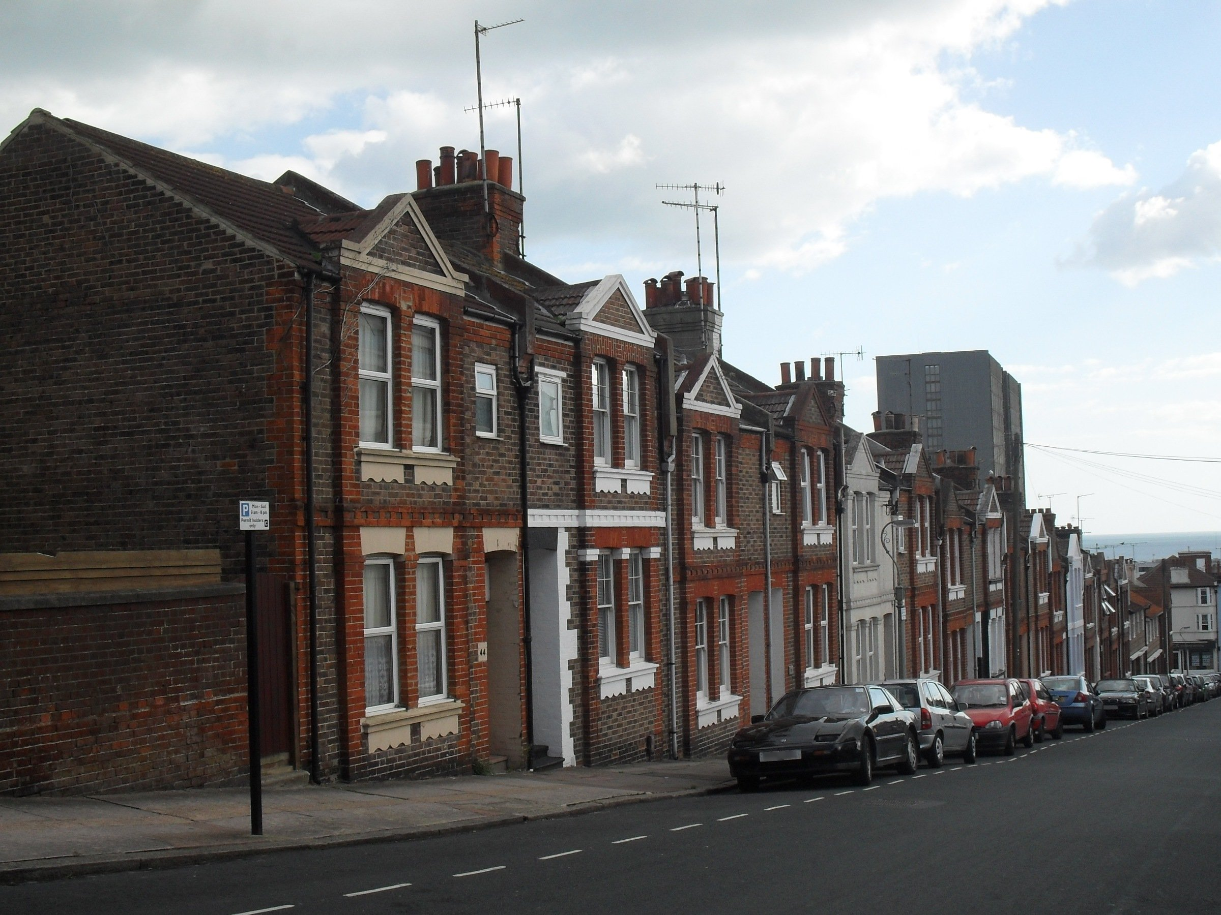 White Street in the Carlton Hill area of the city of Brighton and Hove, England. Built in the 1880s in an early attempt at slum clearance in this inner-city area.